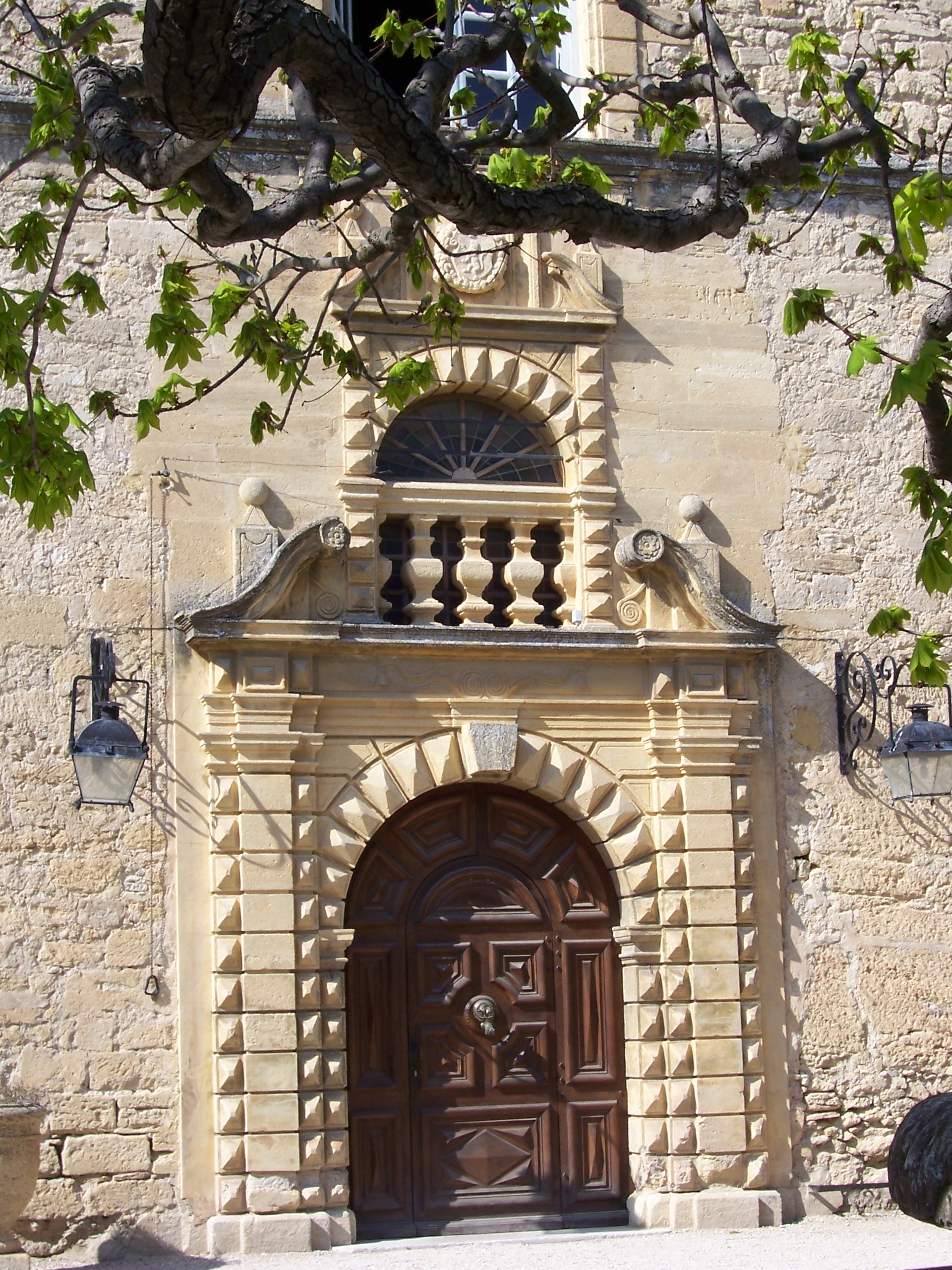 Entrance of the Ansouis castle